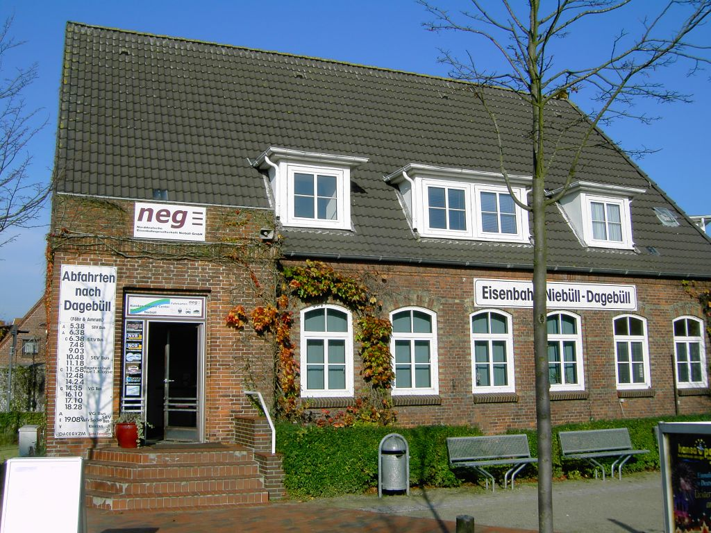 Shows service center of the Kleinbahn Niebüll-Dagebüll AG at Niebüll station, Germany. Shot by Mghamburg at 29th October 2005, 12:20 CET.